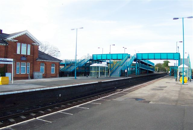 Barnetby Station. Barnetby Station viewed looking North. The platform buildings were pulled down and the large bridge built, to enable disabled passengers in wheel chairs access to trains when the station was de-manned.